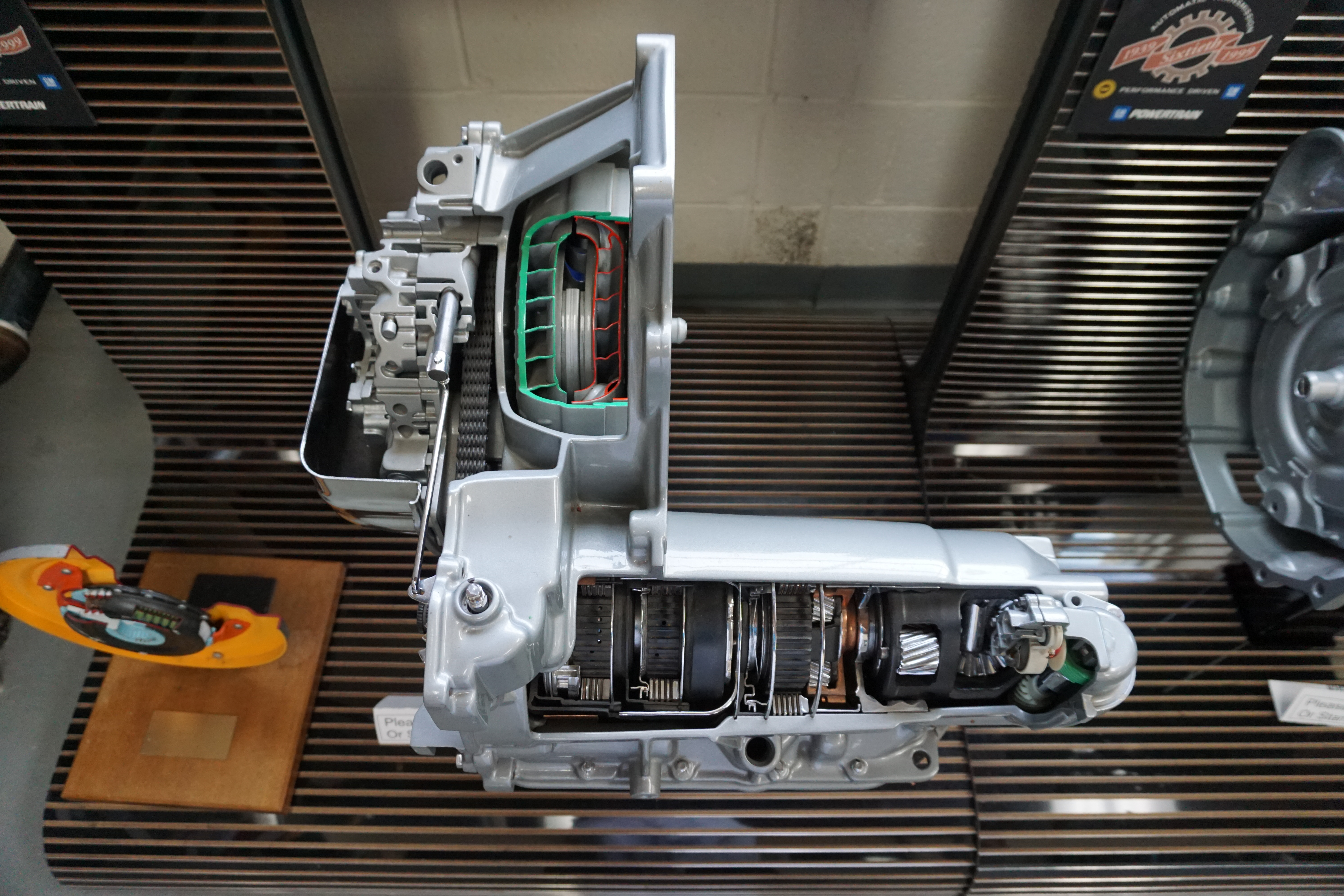 A 1979-2001 Hydra-Matic 3T40 transmission at the Ypsilanti Automotive Heritage Museum in Ypsilanti, Michigan (United States).